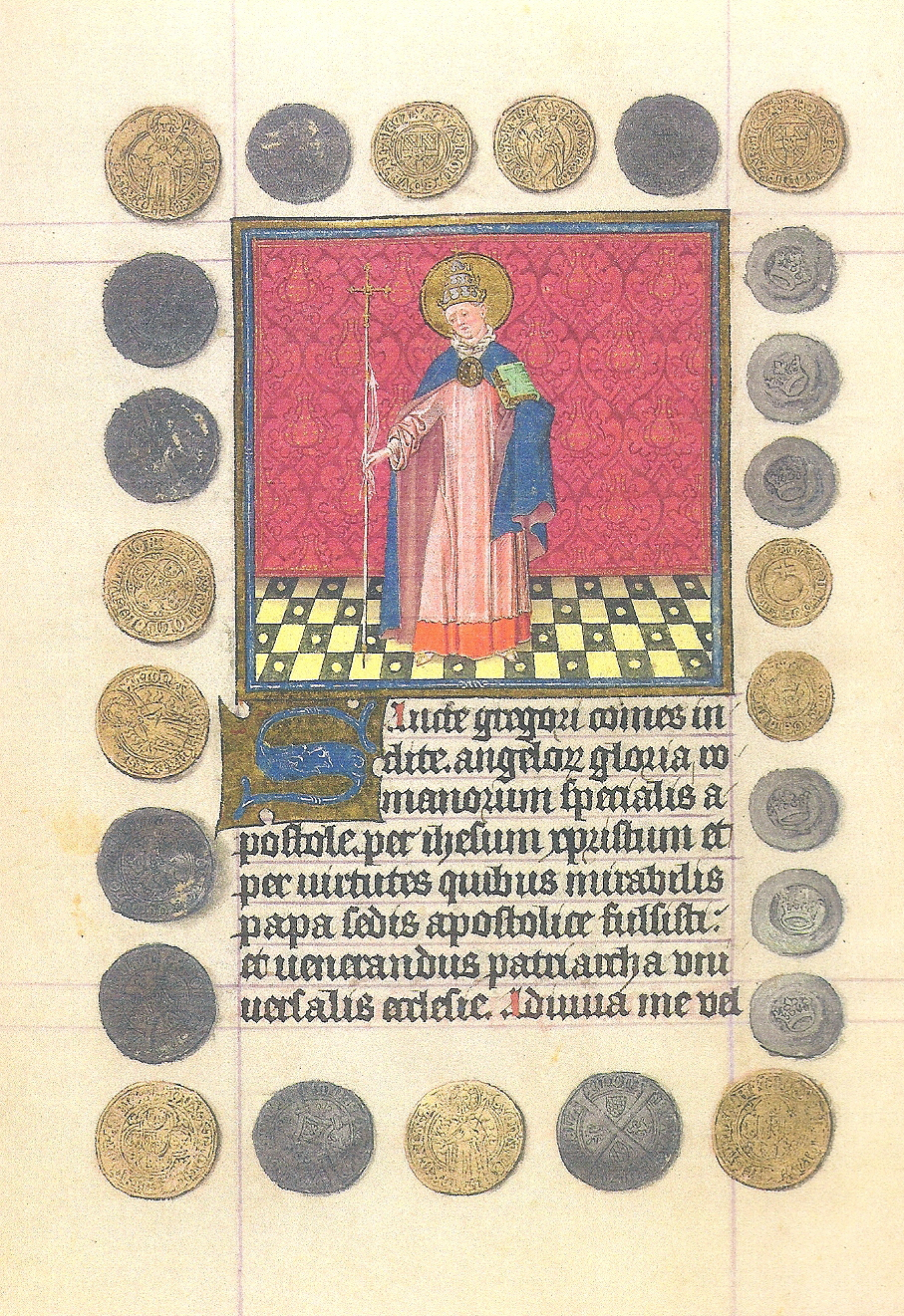 Katharina van Kleef, M. 917, p. 240